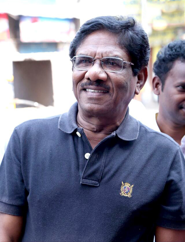 Director Bharathiraja at Salim Movie Audio Launch